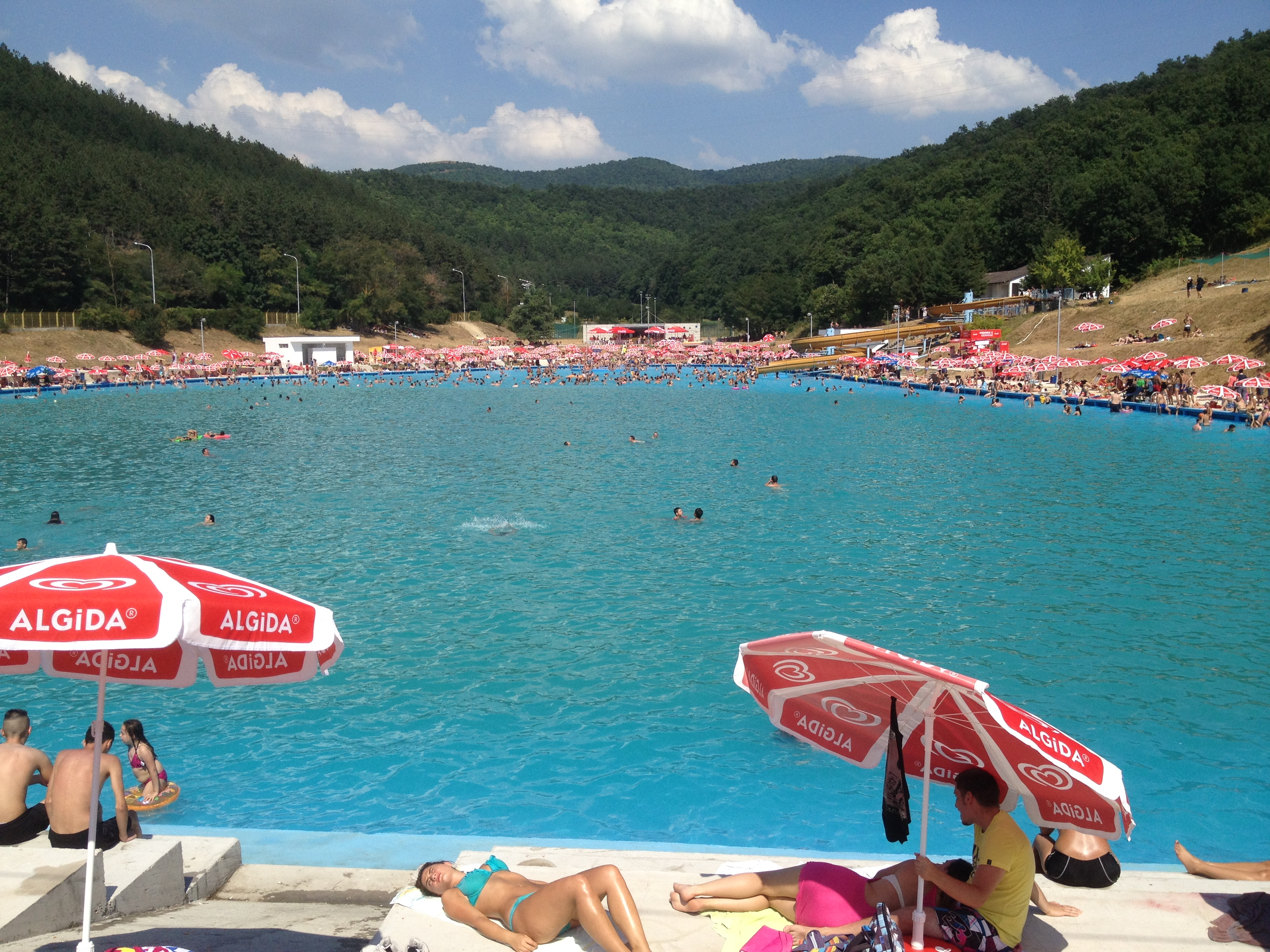 Swimming pool at the entrance of Germia Park in Prishtina, Kosovo.